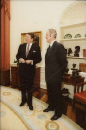 William A. Wilson meets Ronald Reagan in the Oval Office in 1984